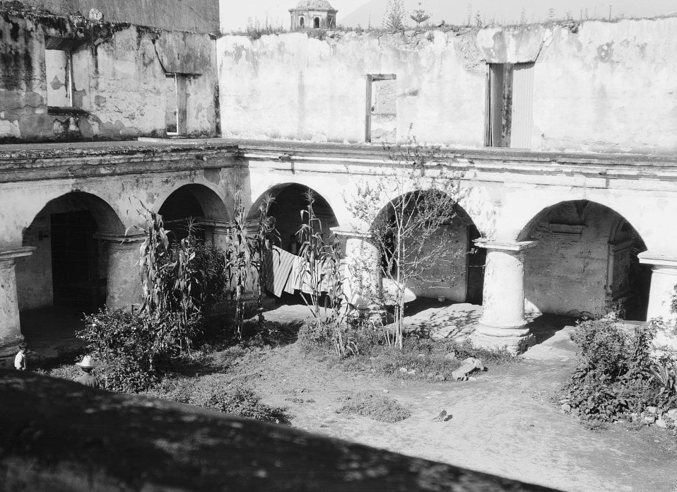 Foto de Antigua Guatemala